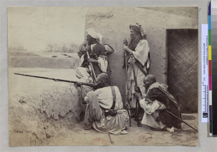 cote cliché NQ-C-003955 légende Quatre hommes à fusils département Cartes et plans cote du document GE DON 4832 période du document XIXème siècle date du document ou du recueil Avant 1881 partie de Photographies et monuments de l'Inde folio, pagination Photo C auteur(s) Shepherd (Photographe) Lejean, Guillaume Marie (1824-1871) catégorie Photographies, cartes postales photographiques mot(s) clef(s) Inde